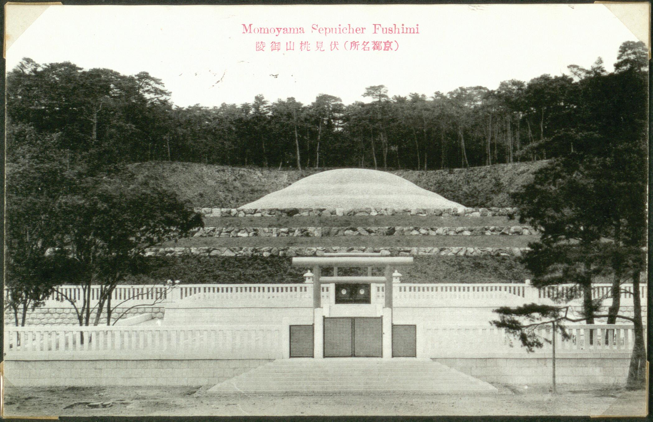 Postcard, which have belonged to Dr Kurt Wulff. No. es_b_00573